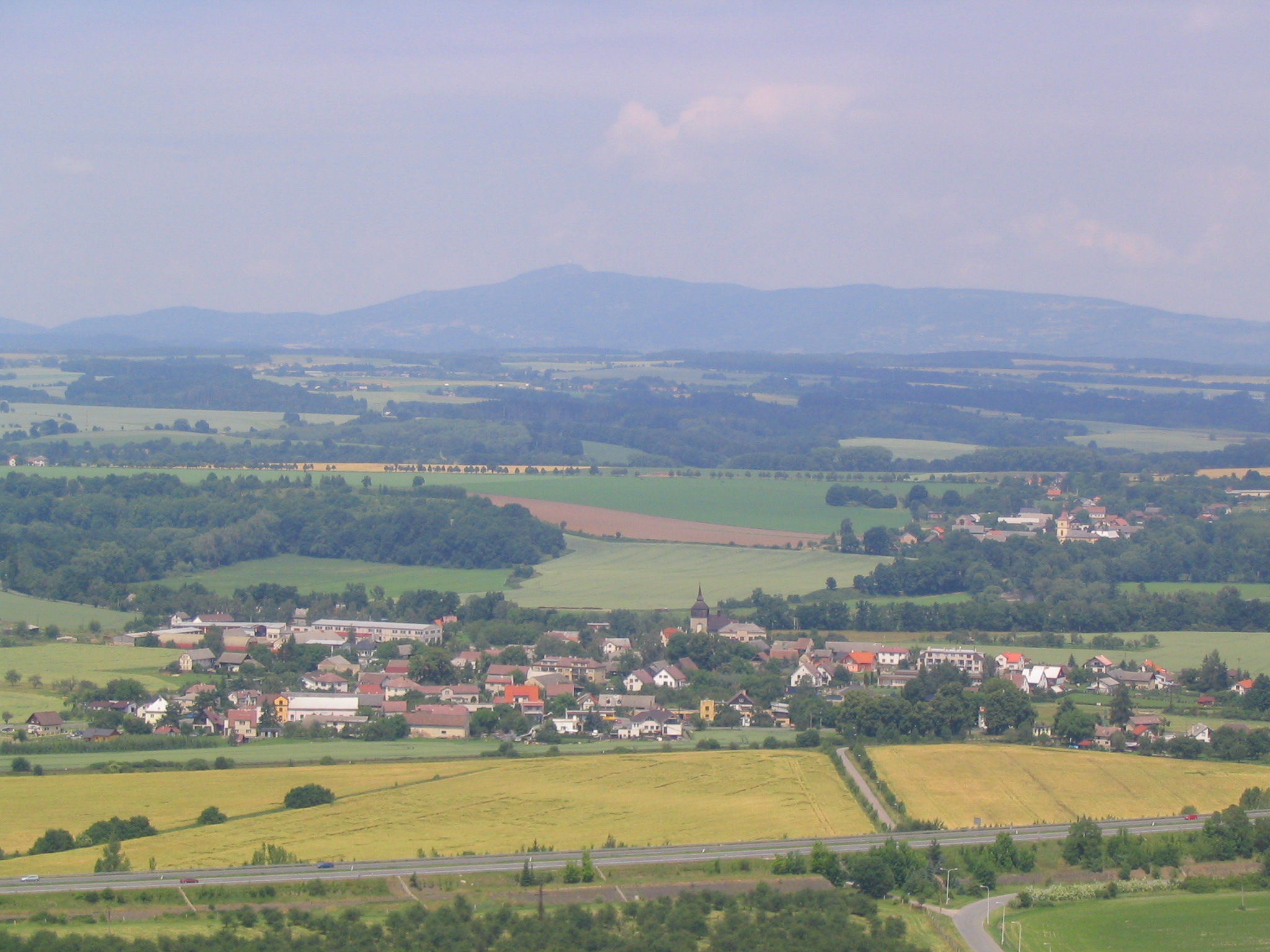 Village of Březina, Czech Republic